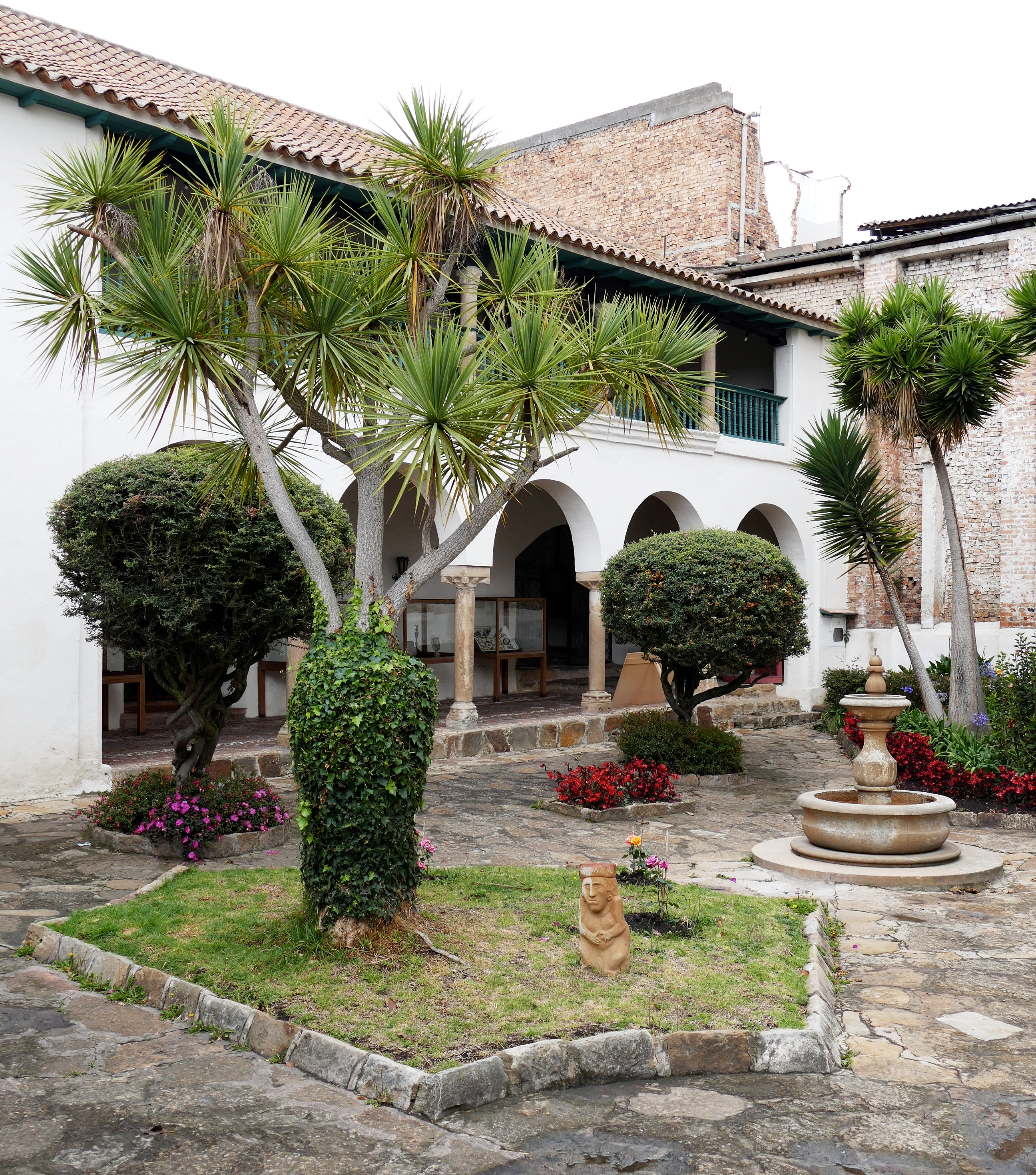 Once home to scribe Juan de Vargas, Casa de Don Juan de Vargas is another splendid 16th-century residence, even richer than Suarez Rendon's one. It also has been converted into a museum and has a collection of colonial artworks on display. Here the most captivating features are the ceilings**, covered with eclectic paintings, jewel of the town's heritage.